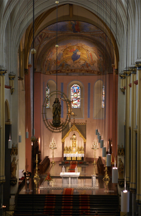 Basilica of Saint Servatius, Maastricht, Netherlands - choir